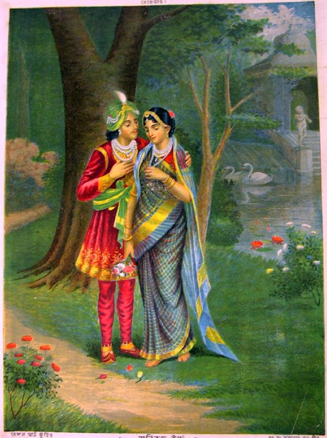 Album of popular prints mounted on cloth pages. Colour lithograph, lettered, inscribed and numbered 9. Aniruddha and Usha stand in a forest with a western influenced landscape scene, complete with a pair of swans floating in a pond, in the background. Usha fell in love with a young man in a dream, and enlisted the help of an artist to draw his likeness and help her find him. That man was identified as Aniruddha, the grandson of Krishna, and the two were secretly married.